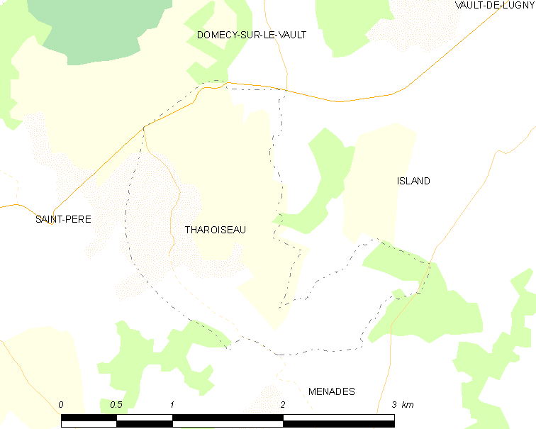 Map of French municipality Tharoiseau